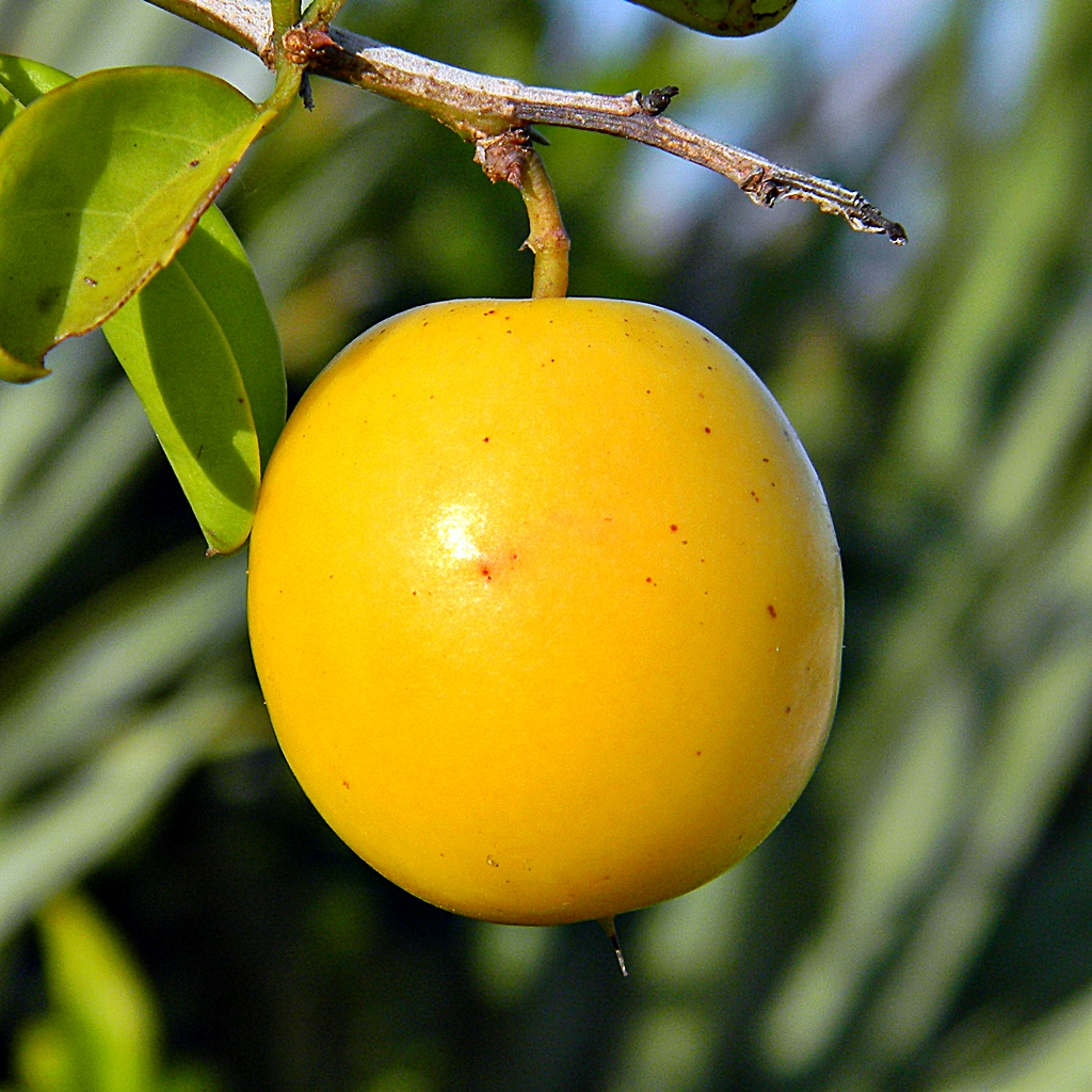 Ripe hog plums (Ximenia americana) dot the scrub like glowing yellow Sun ornaments. They are edible and used to make juice, jams, jellies and intoxicating drinks! The plant's fruit, leaves, roots and bark have numerous medicinal uses. However, the leaves and seed pulp contain hydrocyanic acid (therefore cyanide) and should be avoided. Juno Dunes Natural Area.